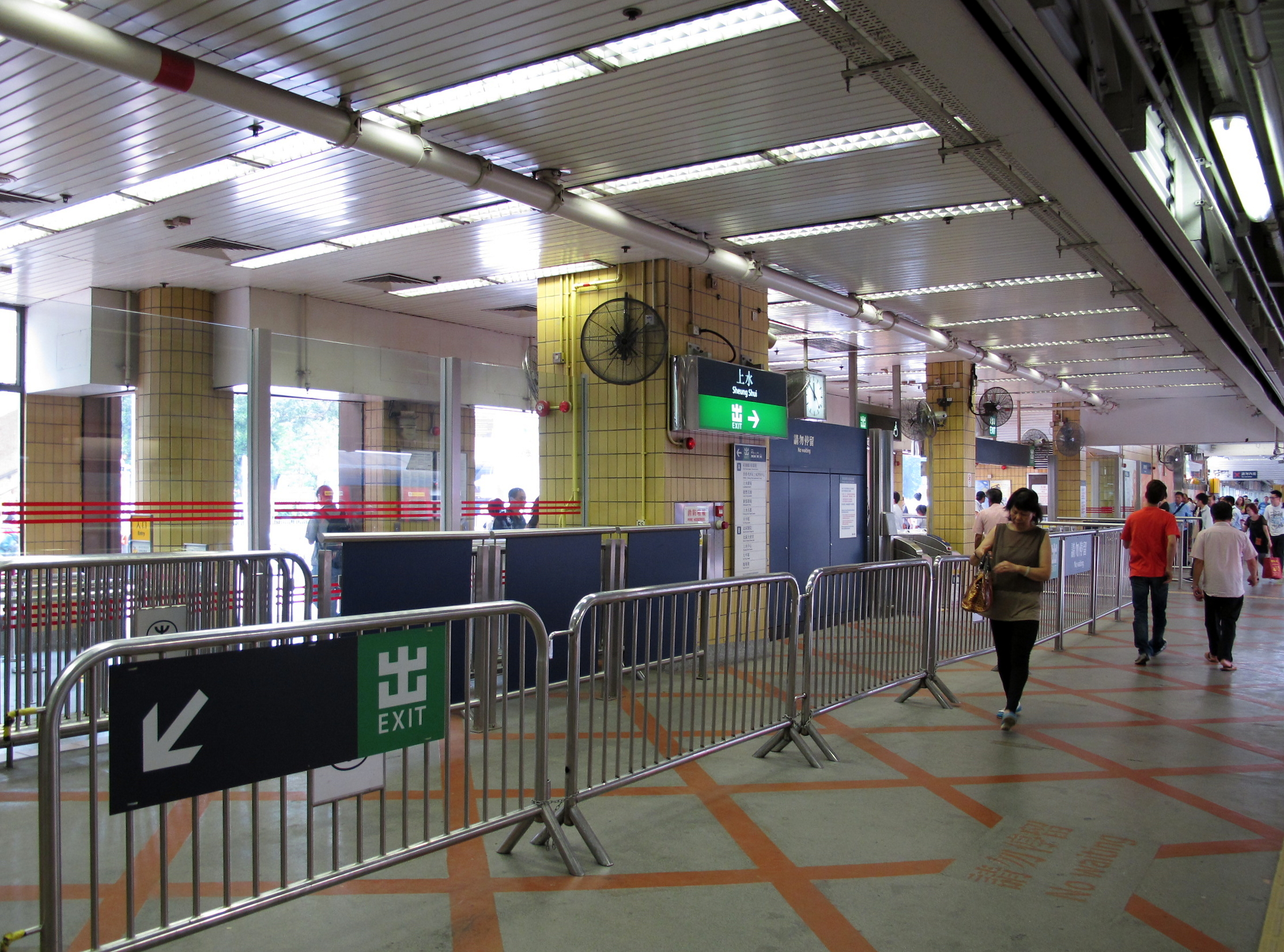 Sheung Shui Station Security Facilities